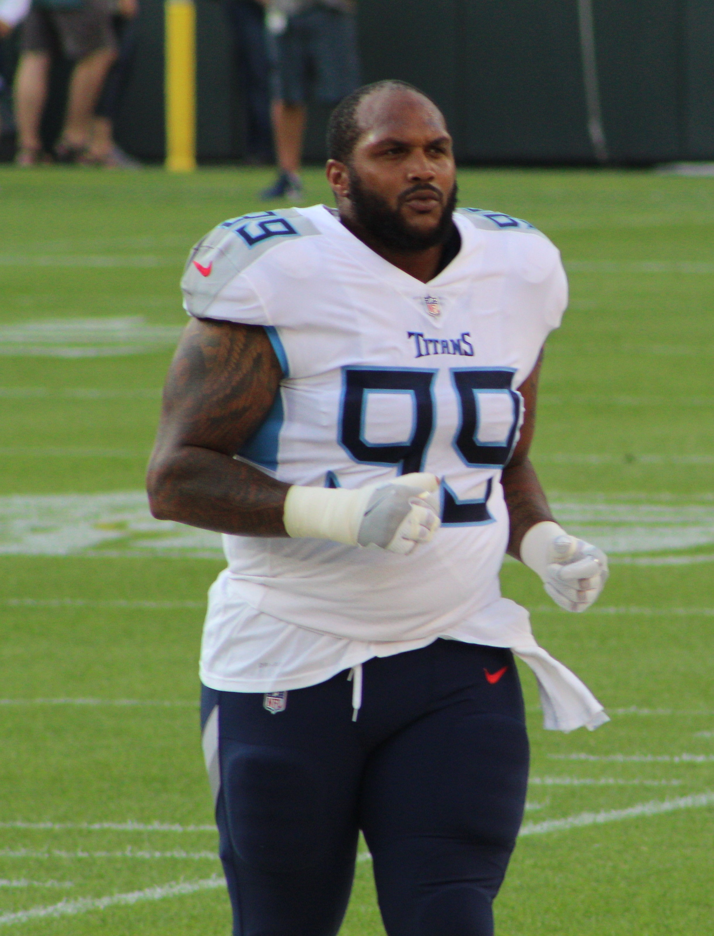 Jurrell Casey, Tennessee Titans at Green Bay Packers (Preseason), August 9, 2018